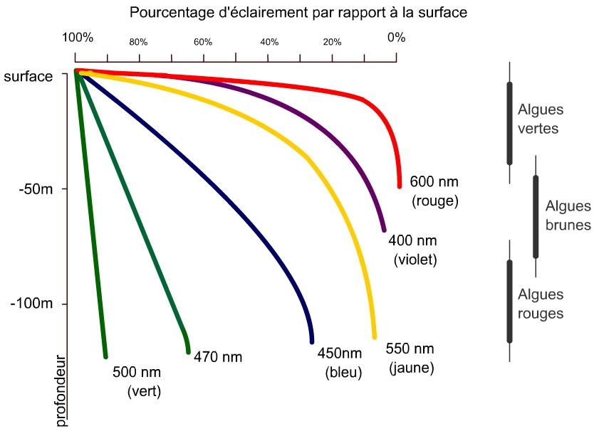 Light absorption with the sea depth